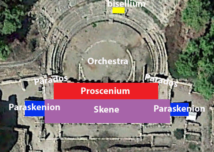 Basic programmatic layout